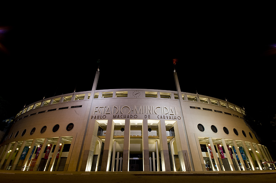 Night view of the facade of the Municipal Stadium Paulo Machado de Carvalho, popularly known as Pacaembu Stadium, located in Sao Paulo, Brazil.